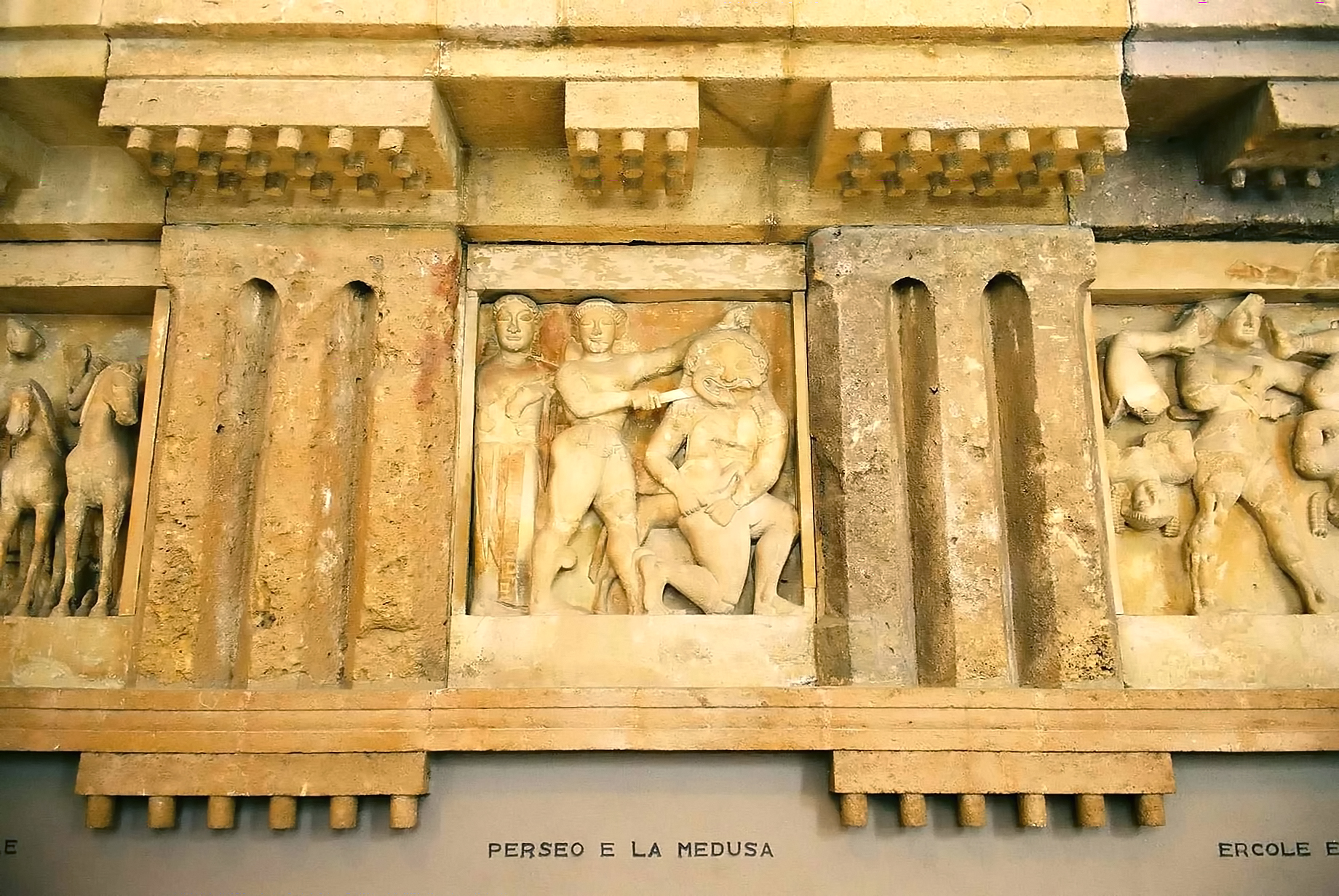 Museo Regionale Archeologico, Palermo. Metopes from temple C of Selinunte.